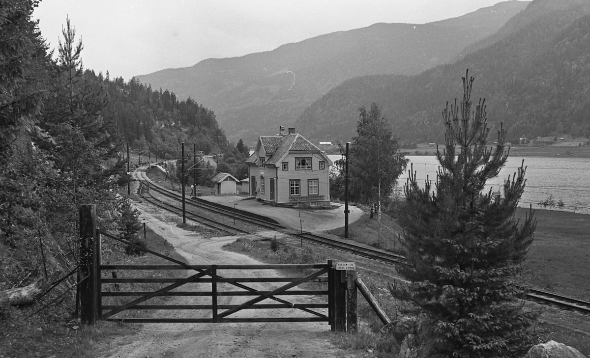 Liodden train stop on Bergen Railway, Norway.